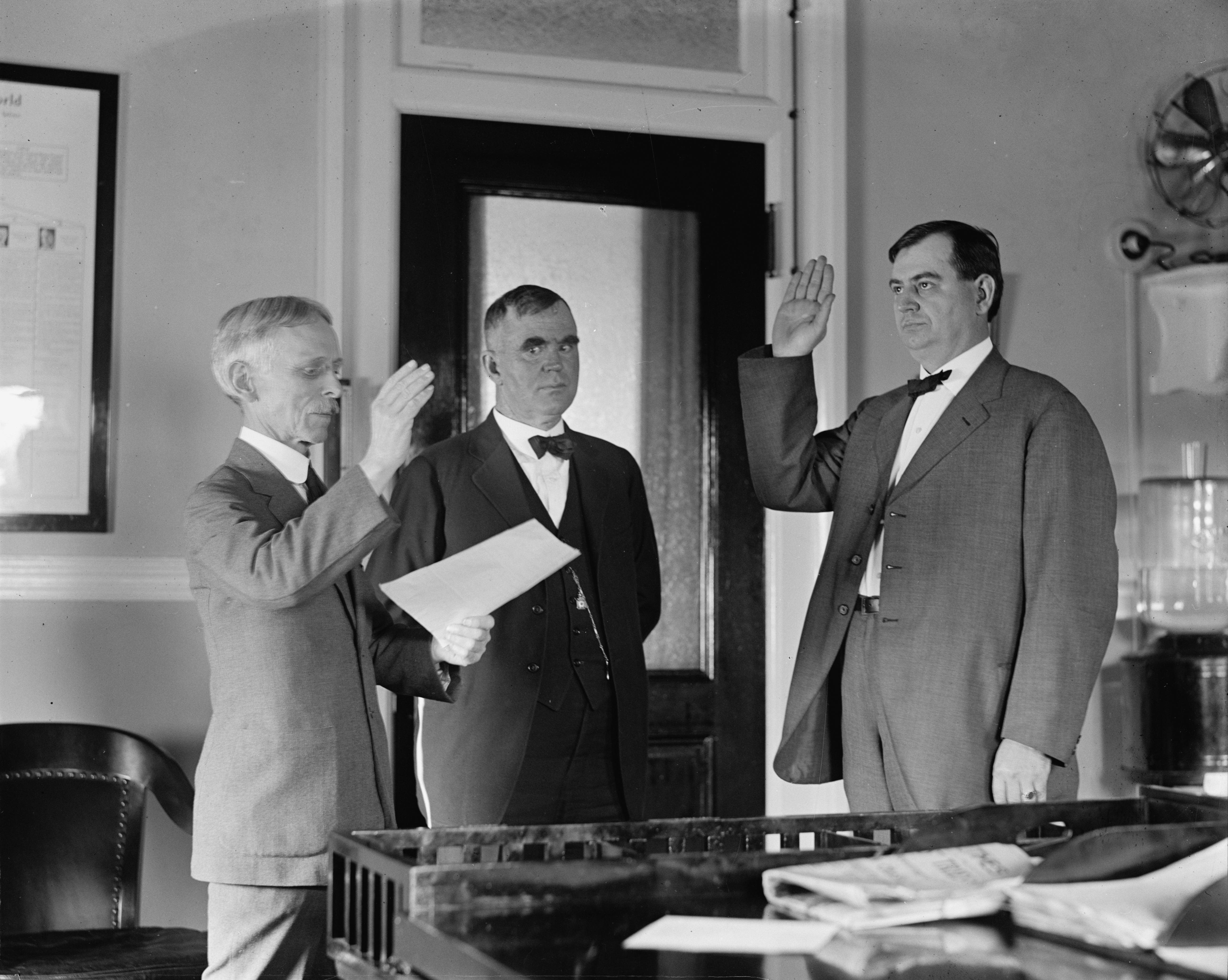 Howard M. Gore swearing in, [9/17/23]